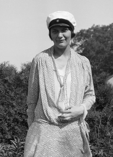 Berit Wallenberg in Karlstad. Berit Wallenberg i Karlstad. Parish (socken): Karlstad Province (landskap): Värmland Municipality (kommun): Karlstad County (län): Värmland Photograph by: Unknown, or self-timer Date: 1929 Format: Film Persistent URL: Read more about the photo database (in english)